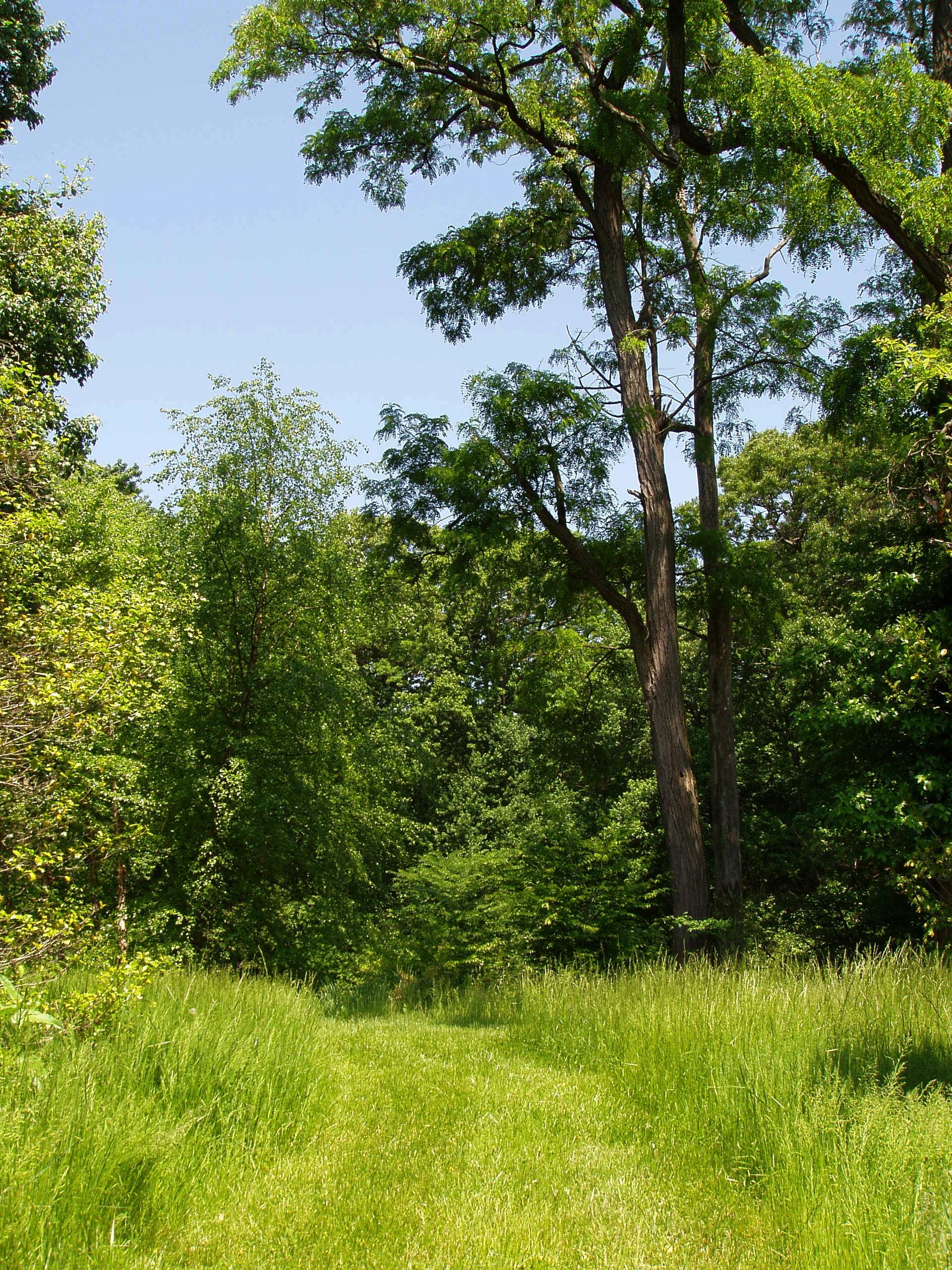 Photograph of Rutgers Gardens, Rutgers University, East Brunswick, New Jersey, USA. General view.